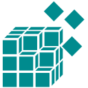 Regedit icon of Metro Uinvert Dock package